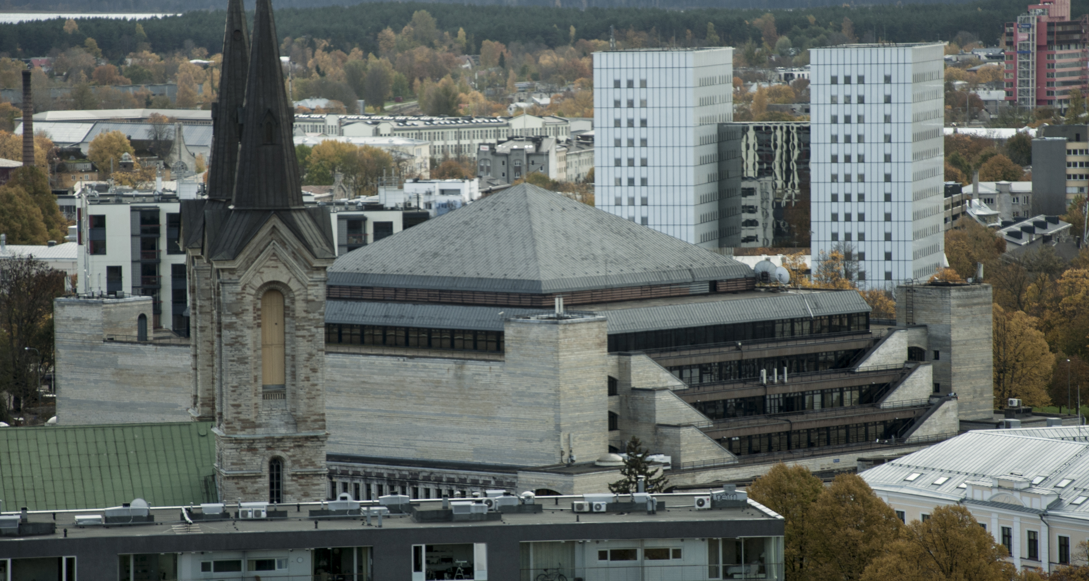 The Estonian National Library as seen from the Riigikogu premises